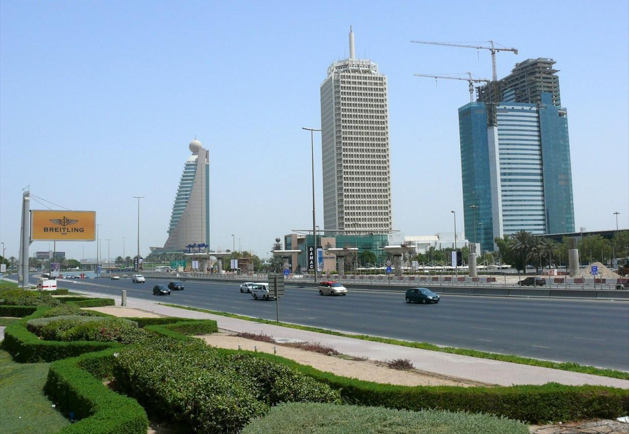 This is a photo showing Etisalat Tower 2 (on the left), Dubai World Trade Centre (n the center), and World Trade Centre Residence (on the right) on 14 September 2007. These three buildings are situated alongside Sheikh Zayed Road in Dubai, United Arab Emirates.